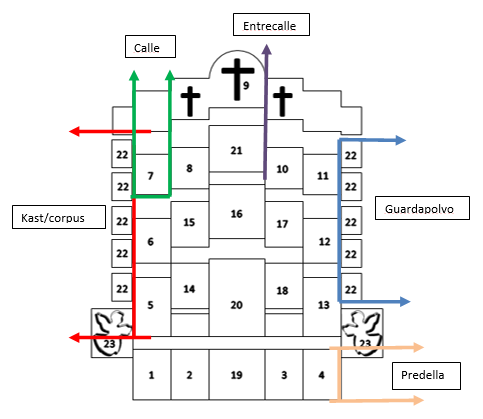 Scheme different parts Retablo Mayor